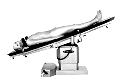 Trendelenburg position